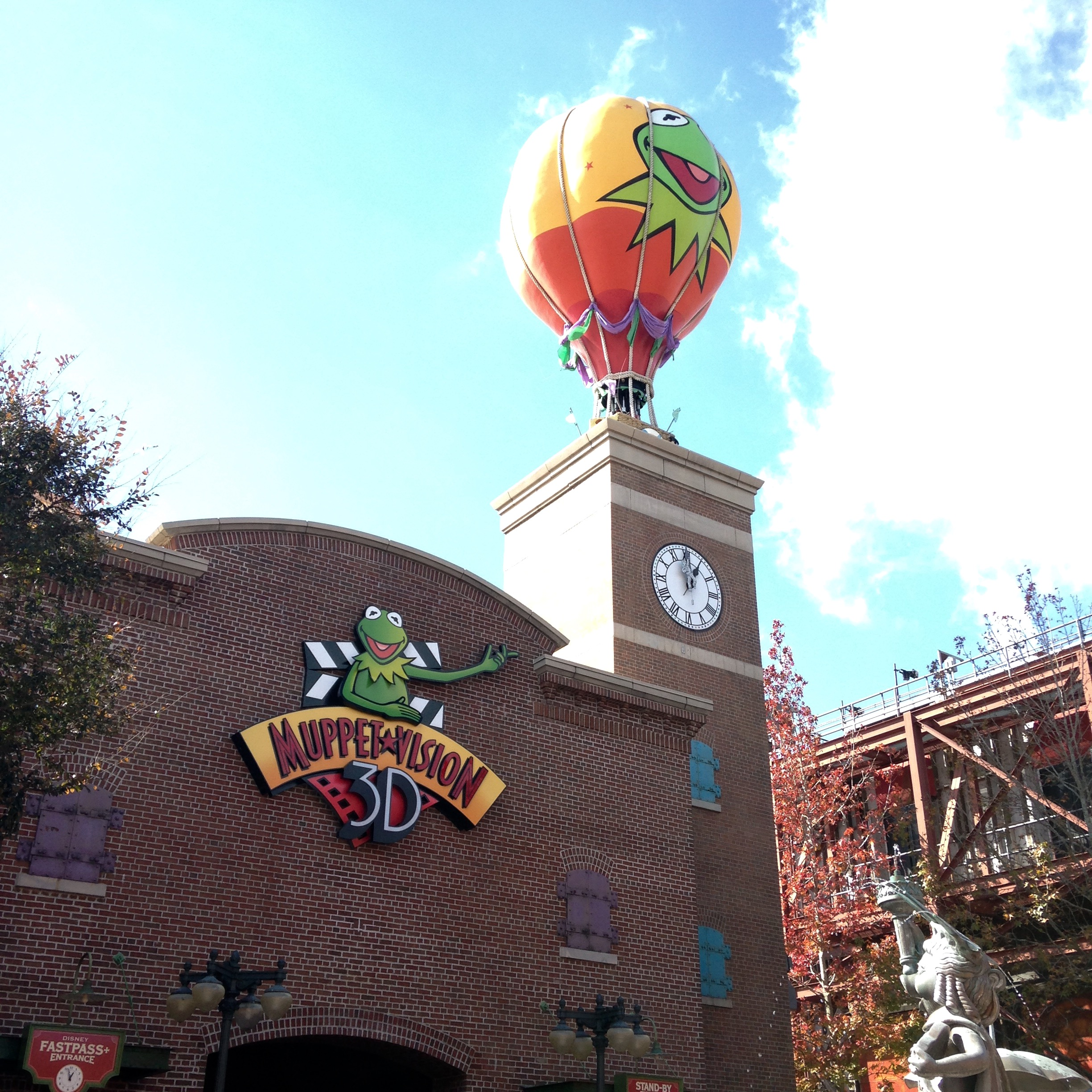 The Muppet*Vision 3D attraction at Disney's Hollywood Studios.